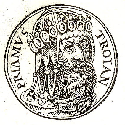 Priamos was the king of Troy during the Trojan War and youngest son of Laomedon.